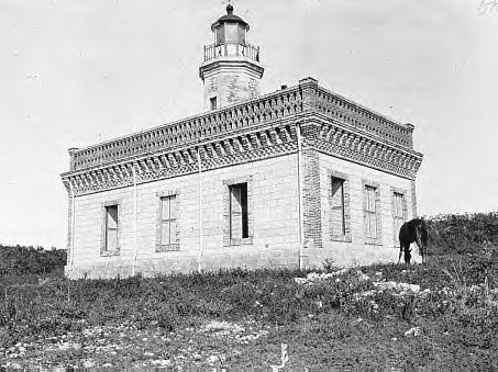 Old Lighthouse in Guanica, Puerto Rico c.1893